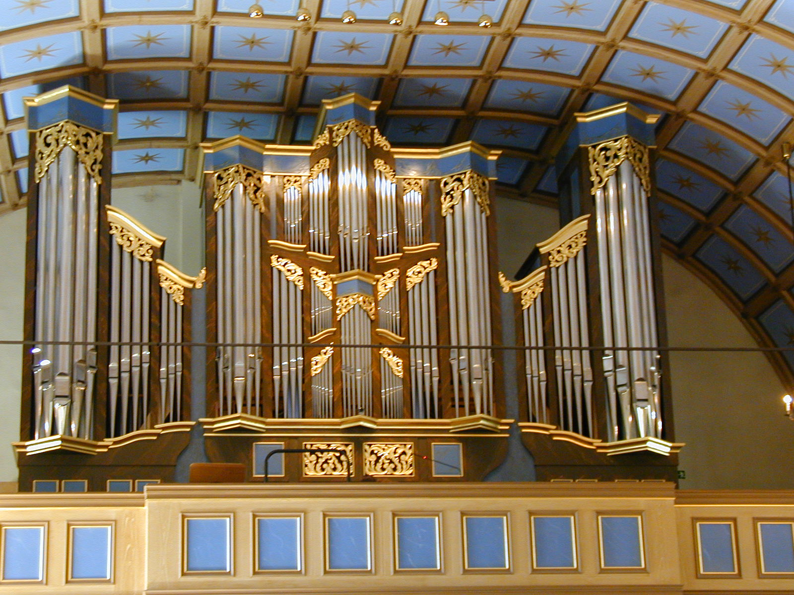 Organ of Kangasala church in Finland